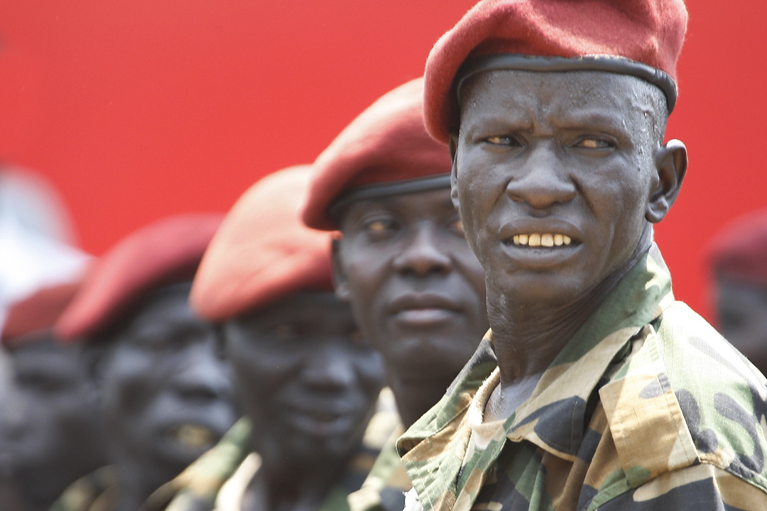 South Sudan's presidential guard await the arrival of foreign dignitaries invited to participate in the country's official independence celebrations in the capital city of Juba.